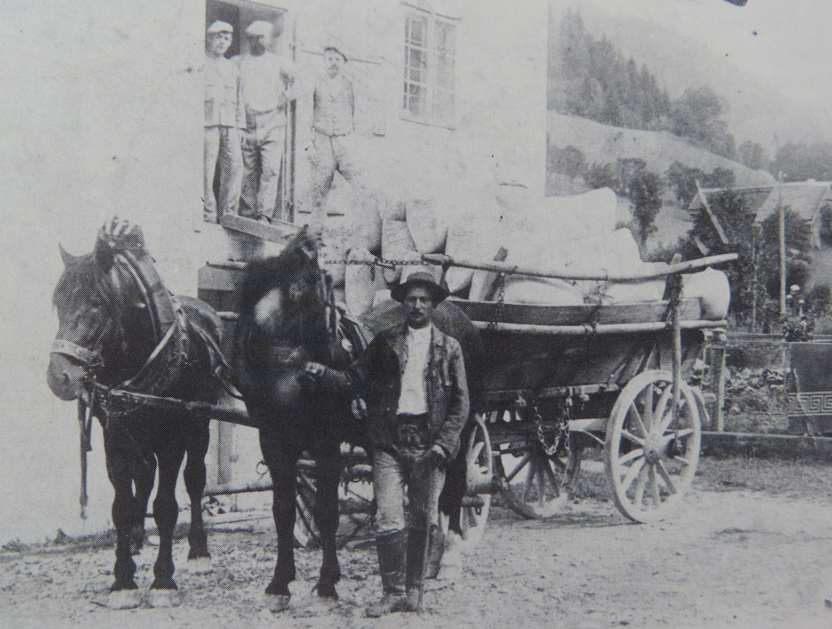 Josef Riedl at Schmeisselmühle, Frankenfels, Austria. Josef Riedl (1889-1948, later Bruck-Bauer) was before World War I farmworker (hourse servant) at Schmeisselmühle. In background ist farmhouse Klein-Gstetten.